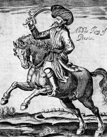 Abbas I of Persia